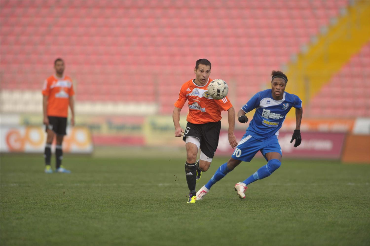 Ivan Kurtusic game pictures